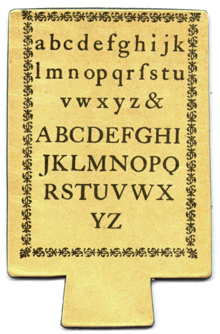 A cardboard battledore, reproduction from Tuer’s History of the Horn-Book, 1896.